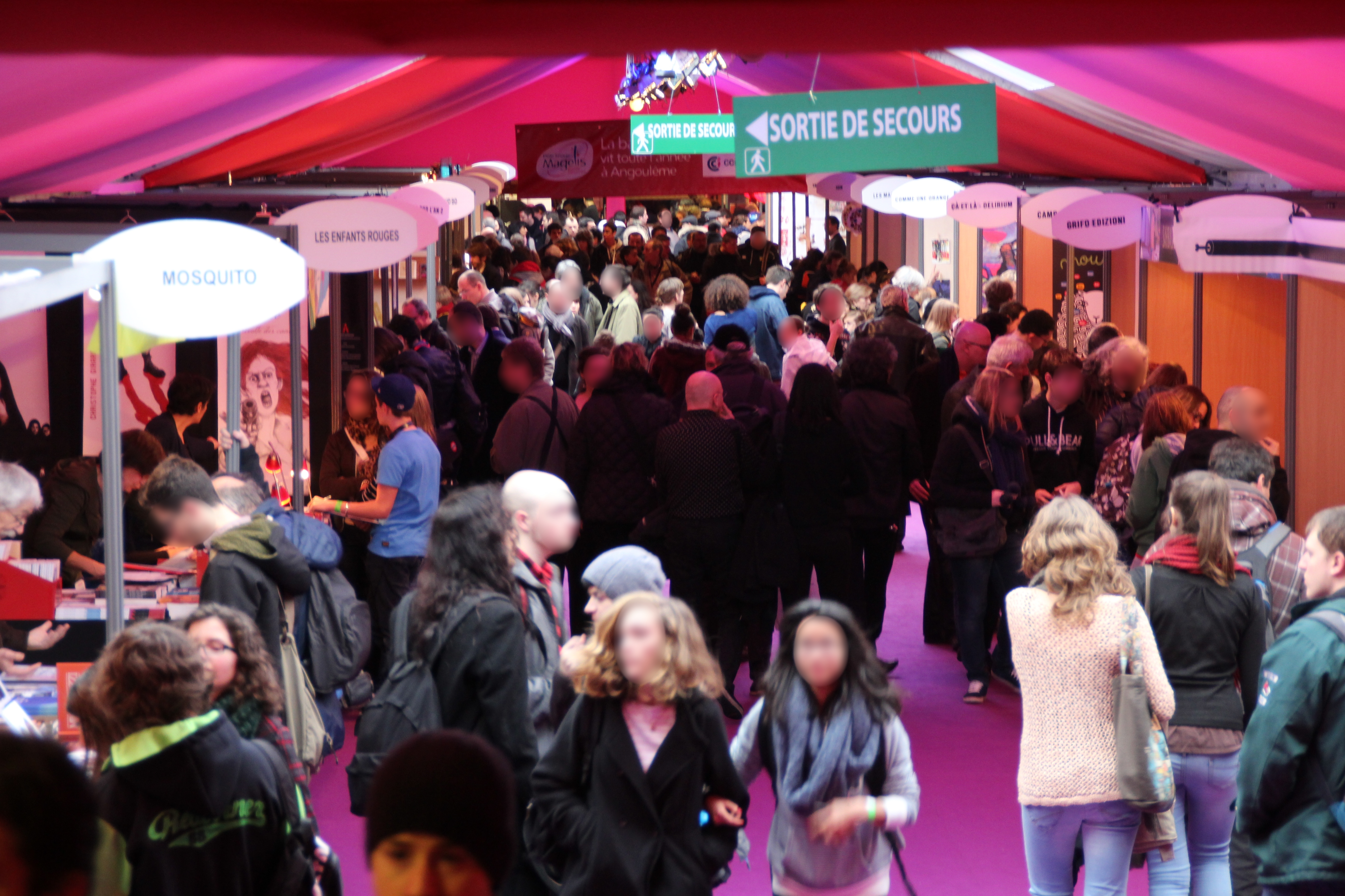 Angoulême International Comics Festival 2013.